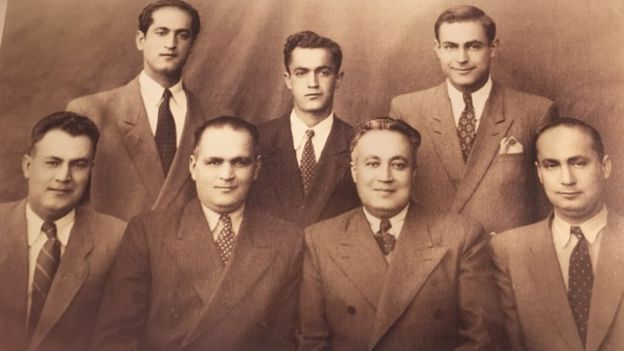 Elghanian family-From left to right: Nejatollah, Ataollah, Sion, Habib, Davood, Jan and Nasrollah-1951